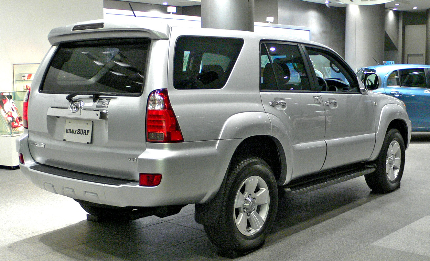 4th generation Toyota Hi-Lux-Surf (2005 - ) photographed in AMLUX